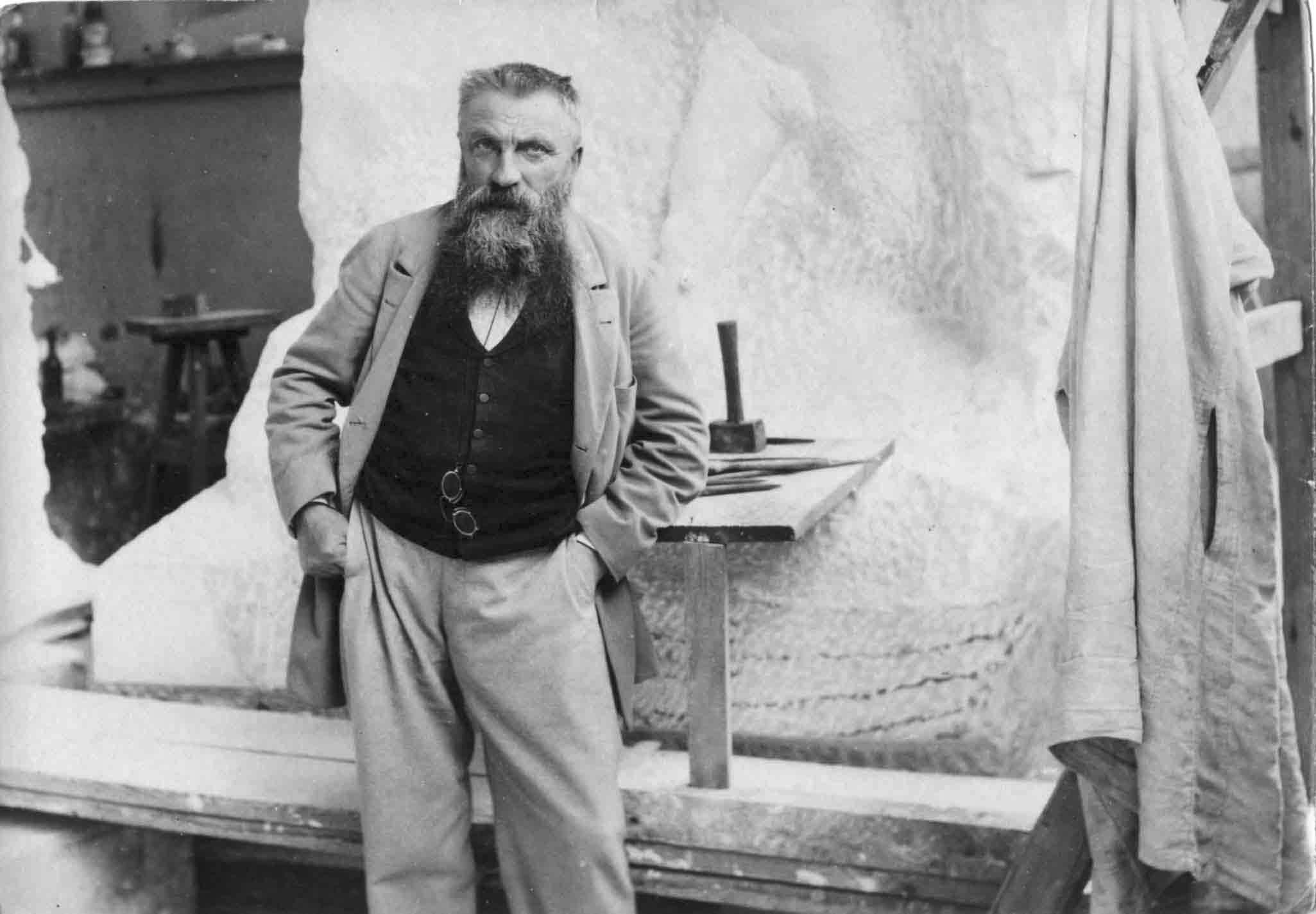 August Rodin photographed in his studio by Paul François Arnold Cardon a.k.a. Dornac (1858–1941).